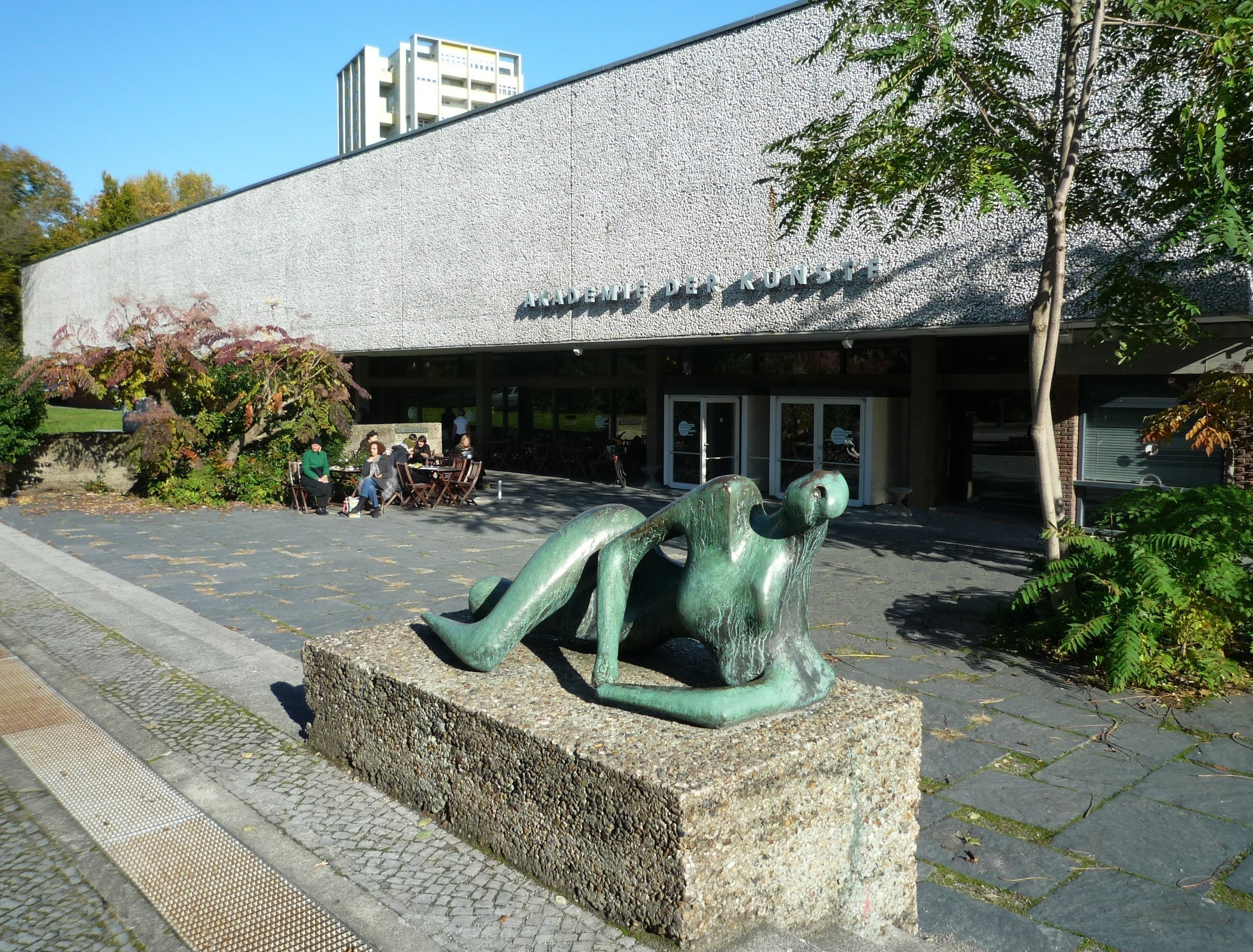 Akademie der Künste (academy of fine arts) Berlin, Hanseatenweg 10. Main entrance. Architect: Werner Düttmann, 1960. Sculpture created by Henry Moore.